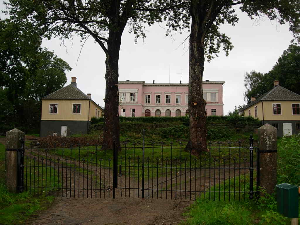 Stroms slott, in Lilla Edet, Sweden